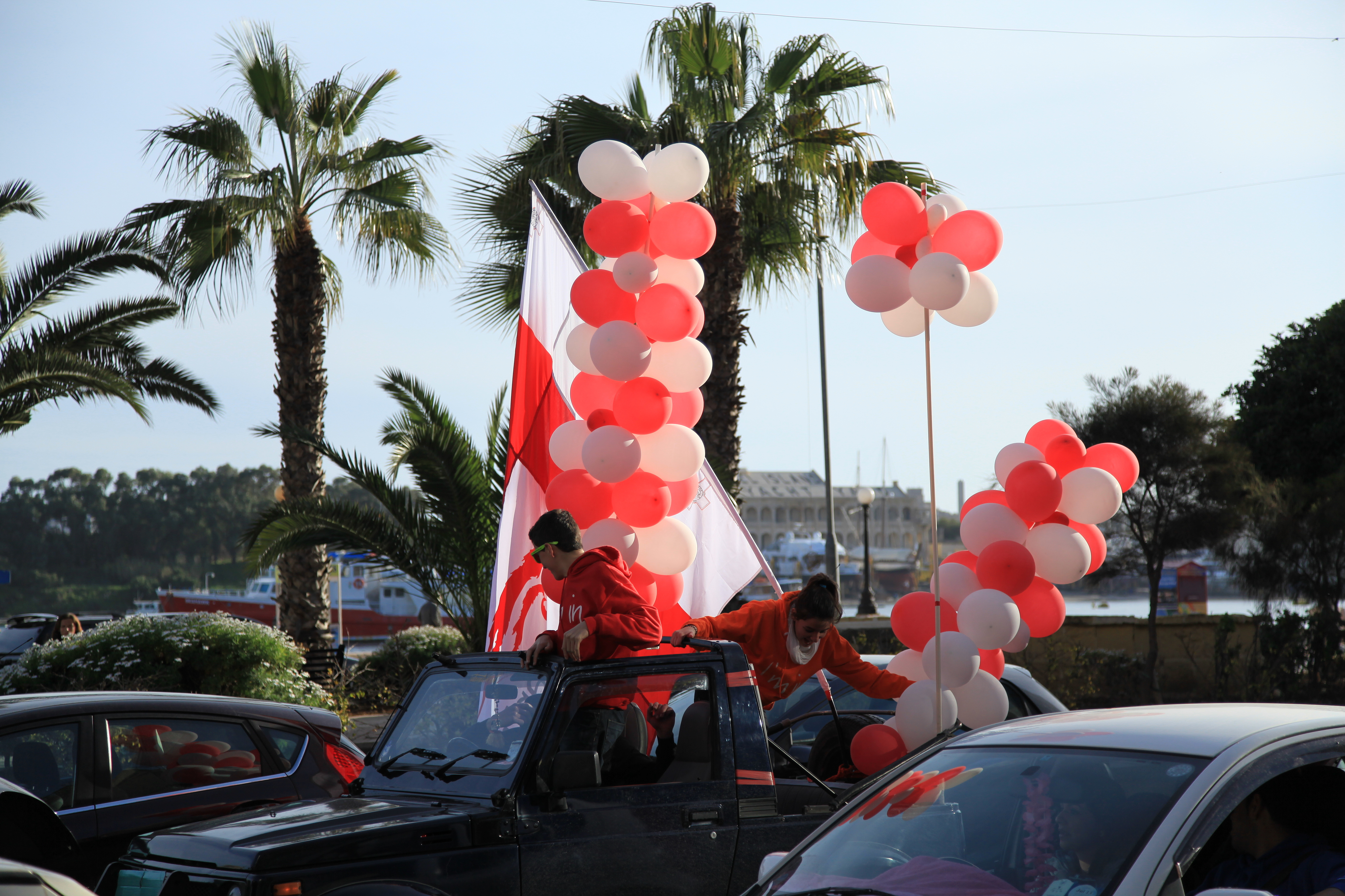 Election celebrations at Triq Ix-Xatt in Sliema, Malta